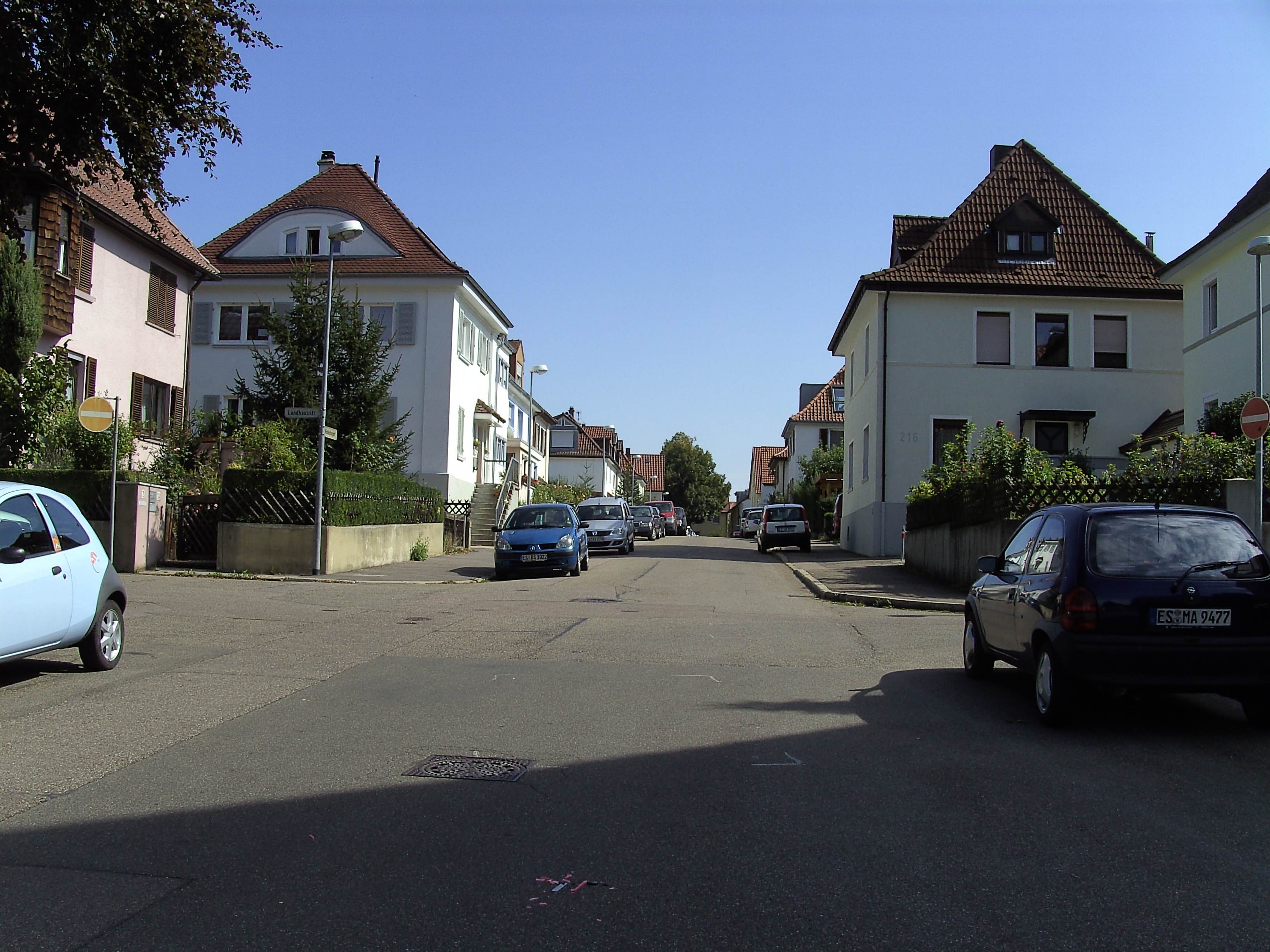 Entrance Garden City Oberesslingen (Esslingen am Neckar) Germany